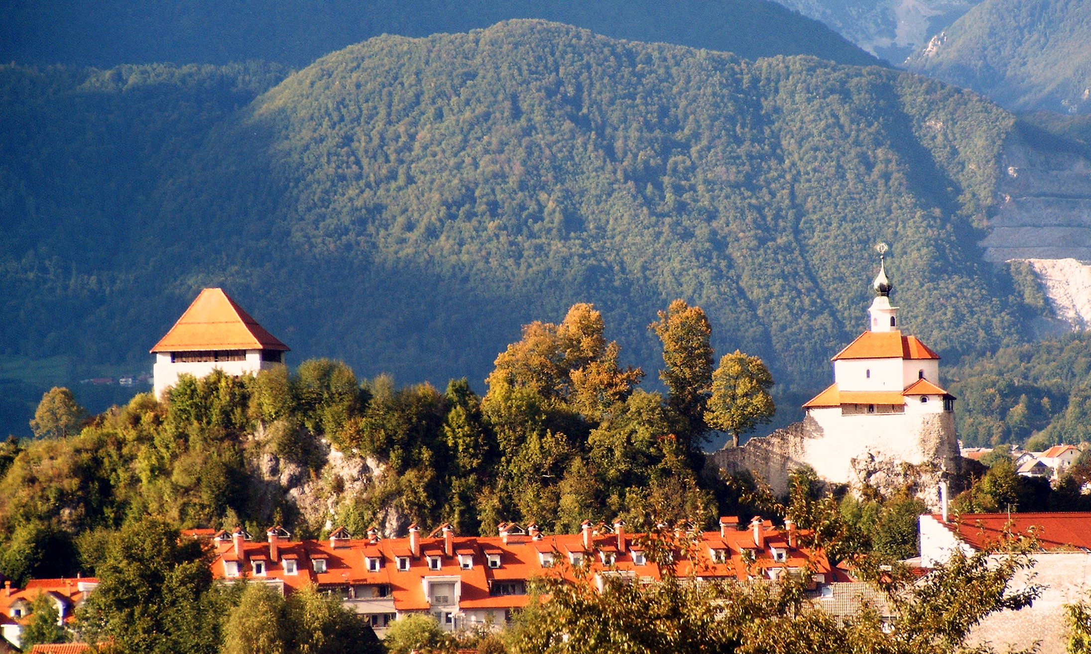 Mali grad in kamnik viewed from the southeast with the kamnik savinja alps in the background